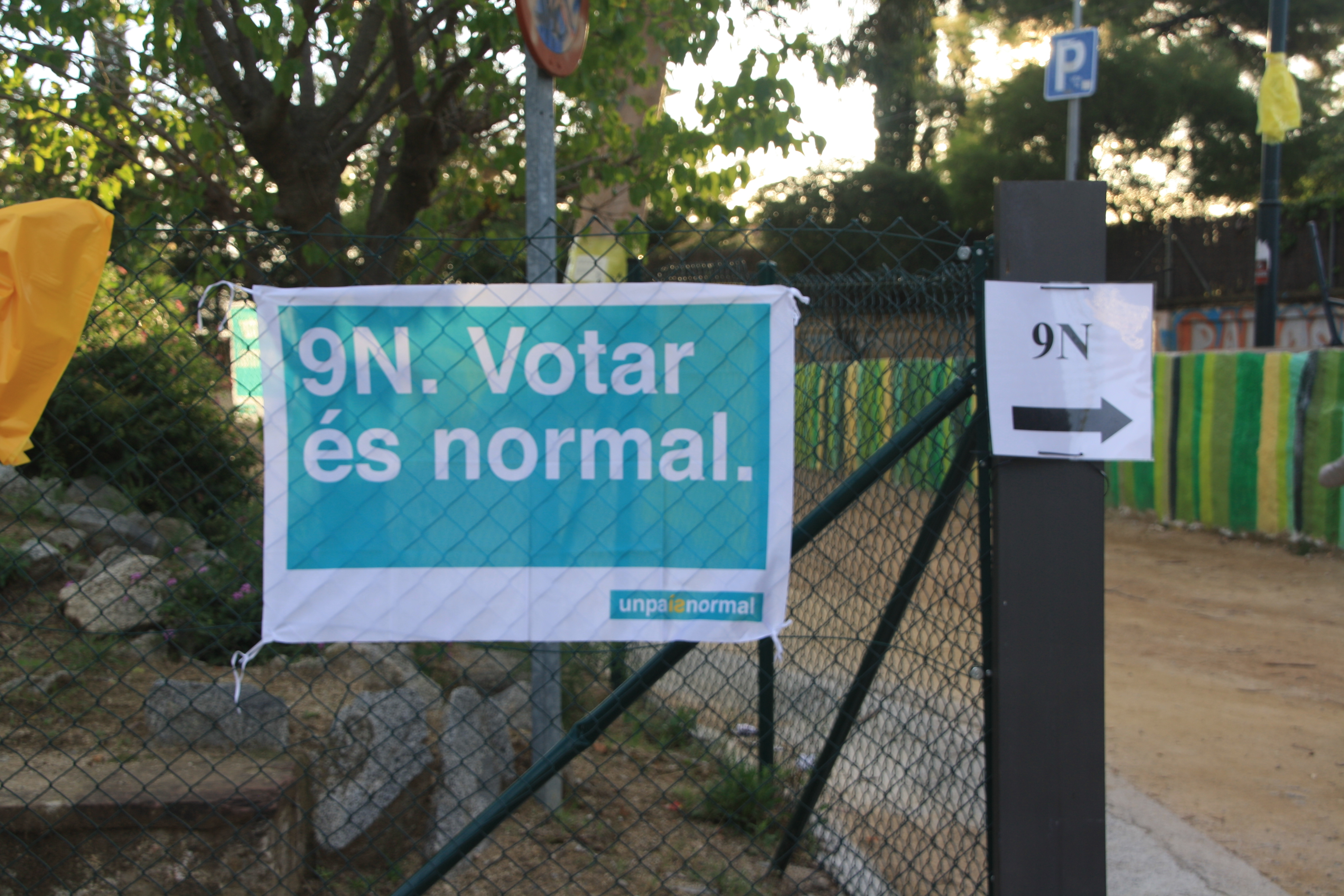 Un país normal Núria Vives